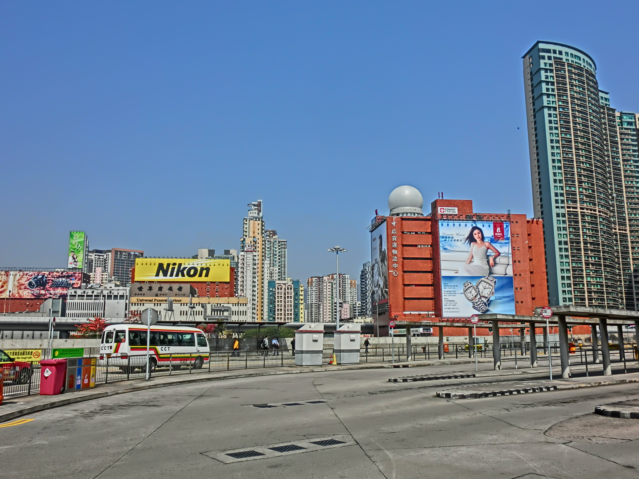 Cheong Wan Road, Hung Hom, Hong Kong